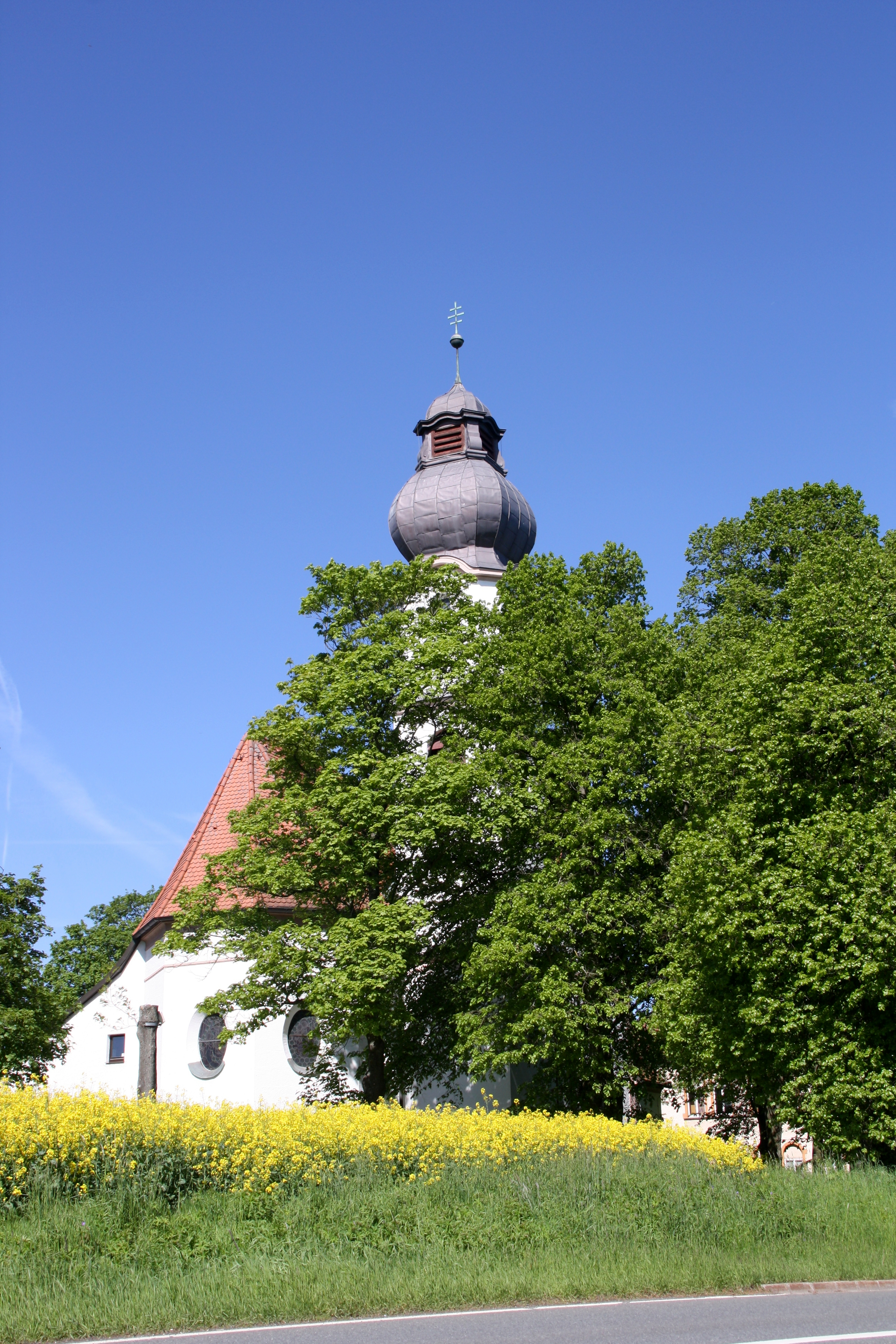 Catholic parish church Annuntiatio B.V.M., photographed at the entrance of Schönwald